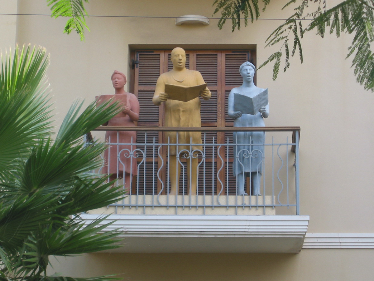 House in Sderot Rotshield, Tel Aviv, with the statue "choir", Ofra Zimbalista, 1996, body casts, aluminum, pigment